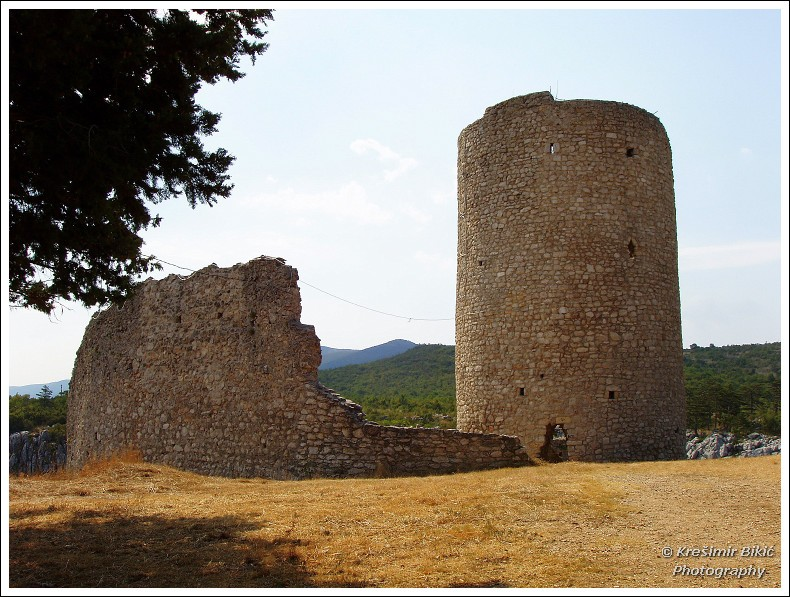 Drniš fortress